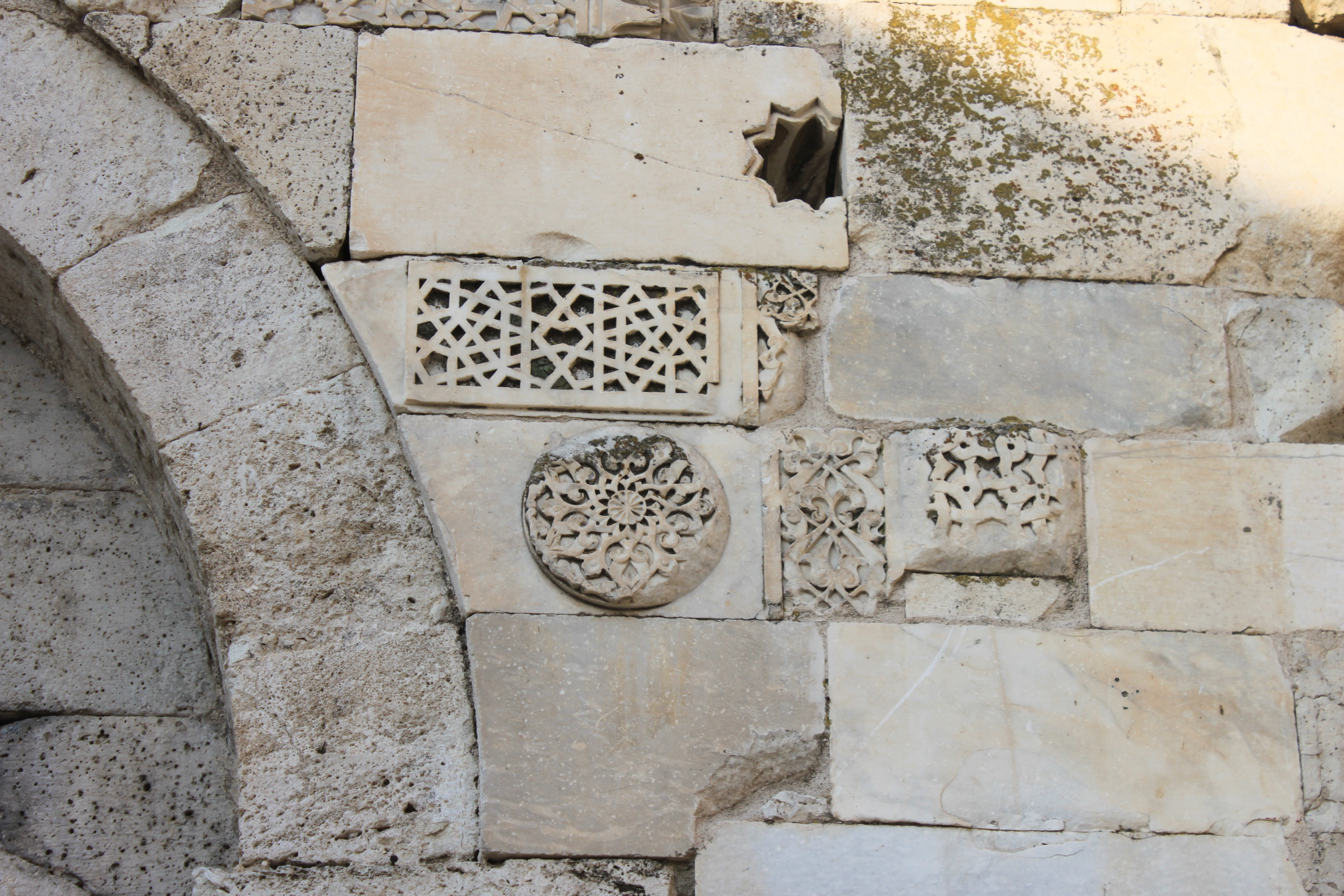 Eğirdir, spolia at the gate of the old town